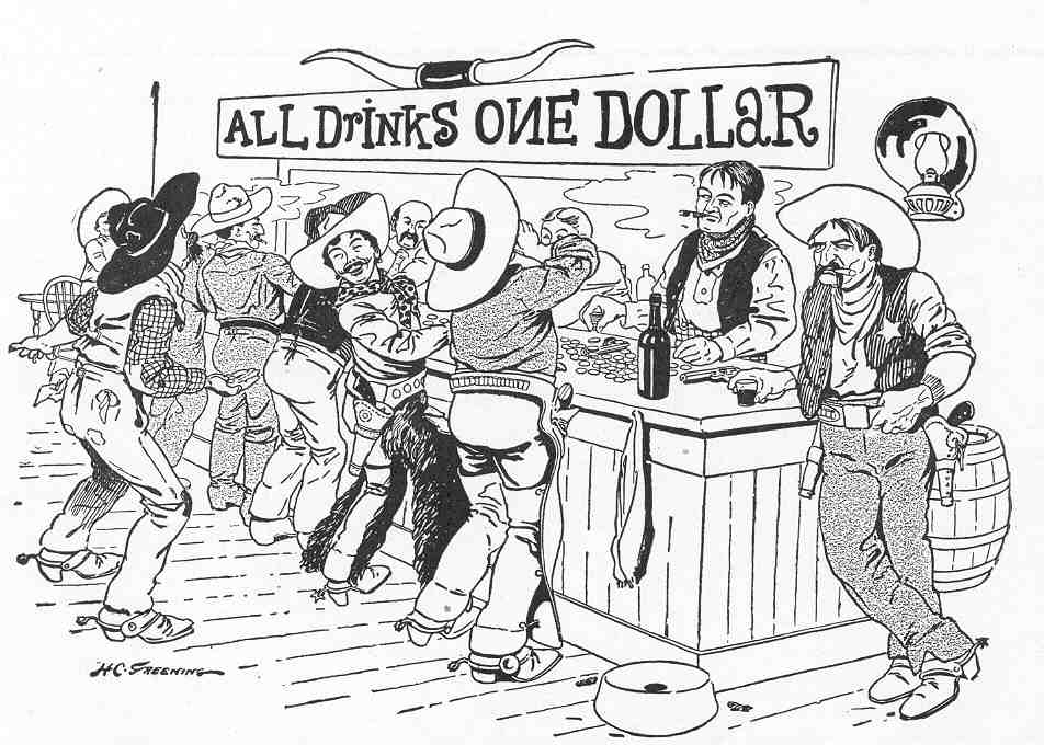 Illustration to The Octopus Marooned by O. Henry